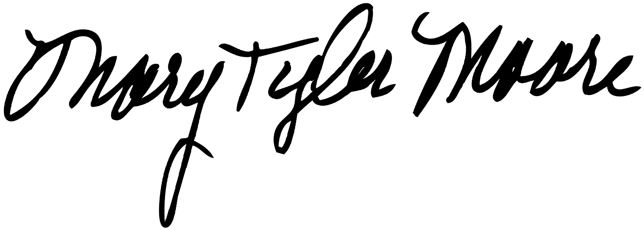 In-person signature obtained in 2002.